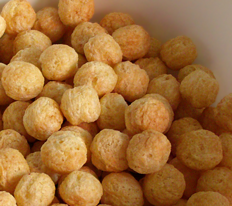 Kix brand breakfast cereal. Closeup photo shows details of texture.